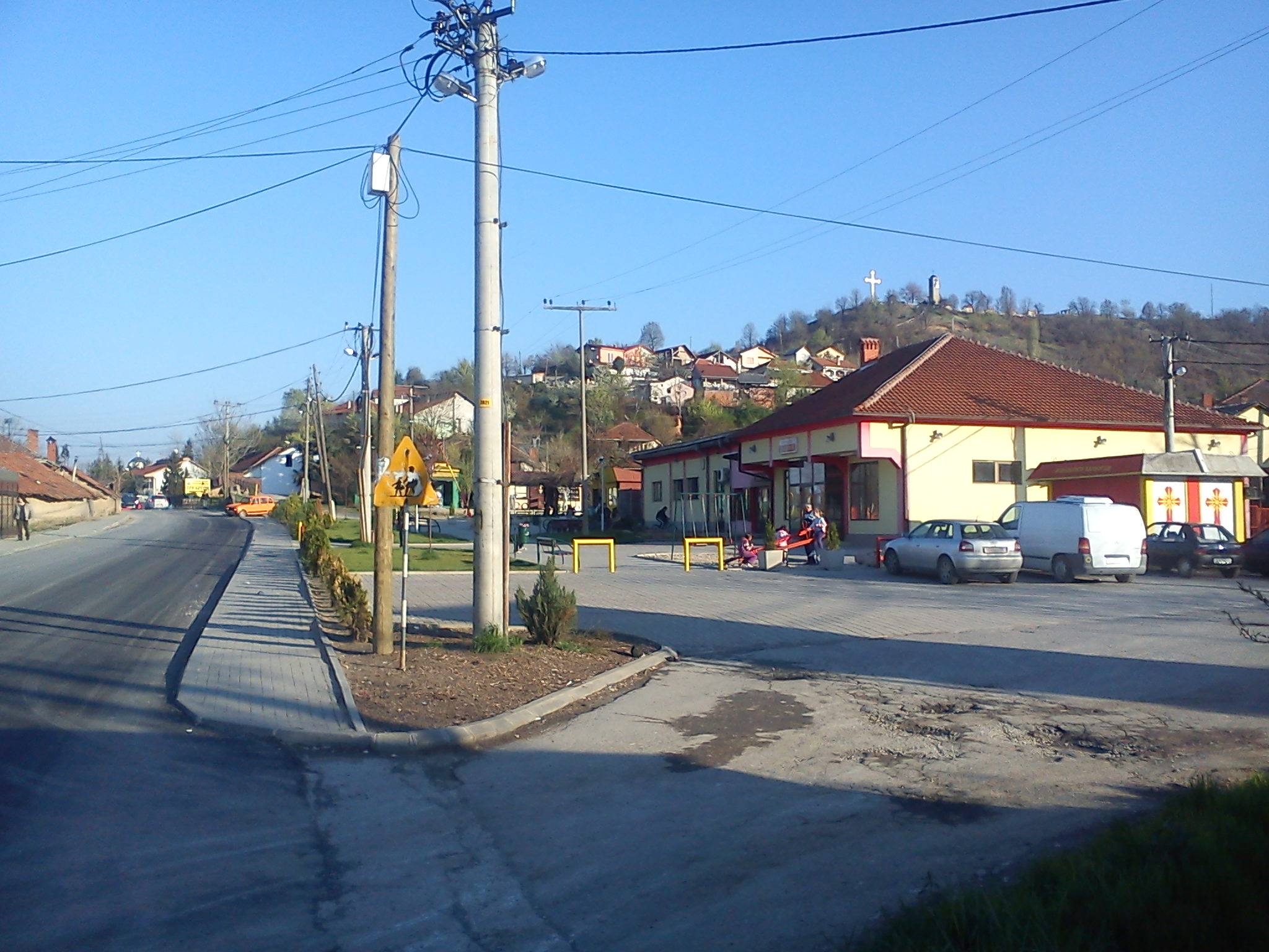 Drachevo, Macedonia